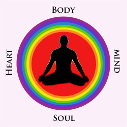 Holistic health, body, mind, heart, soul